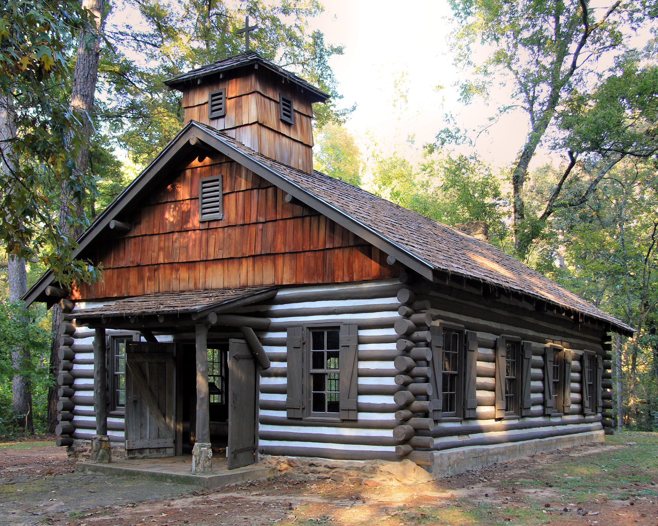 The replica of Mission Tejas built by the Civilian Conservation Corps circa 1935 in Mission Tejas State Park, Houston County, Texas, United States